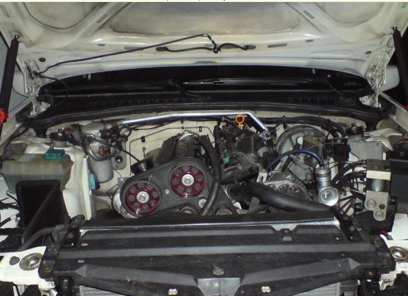 Volvo 965 1992 with "The Italian". 2.0 16 V Turbo Intercooler.